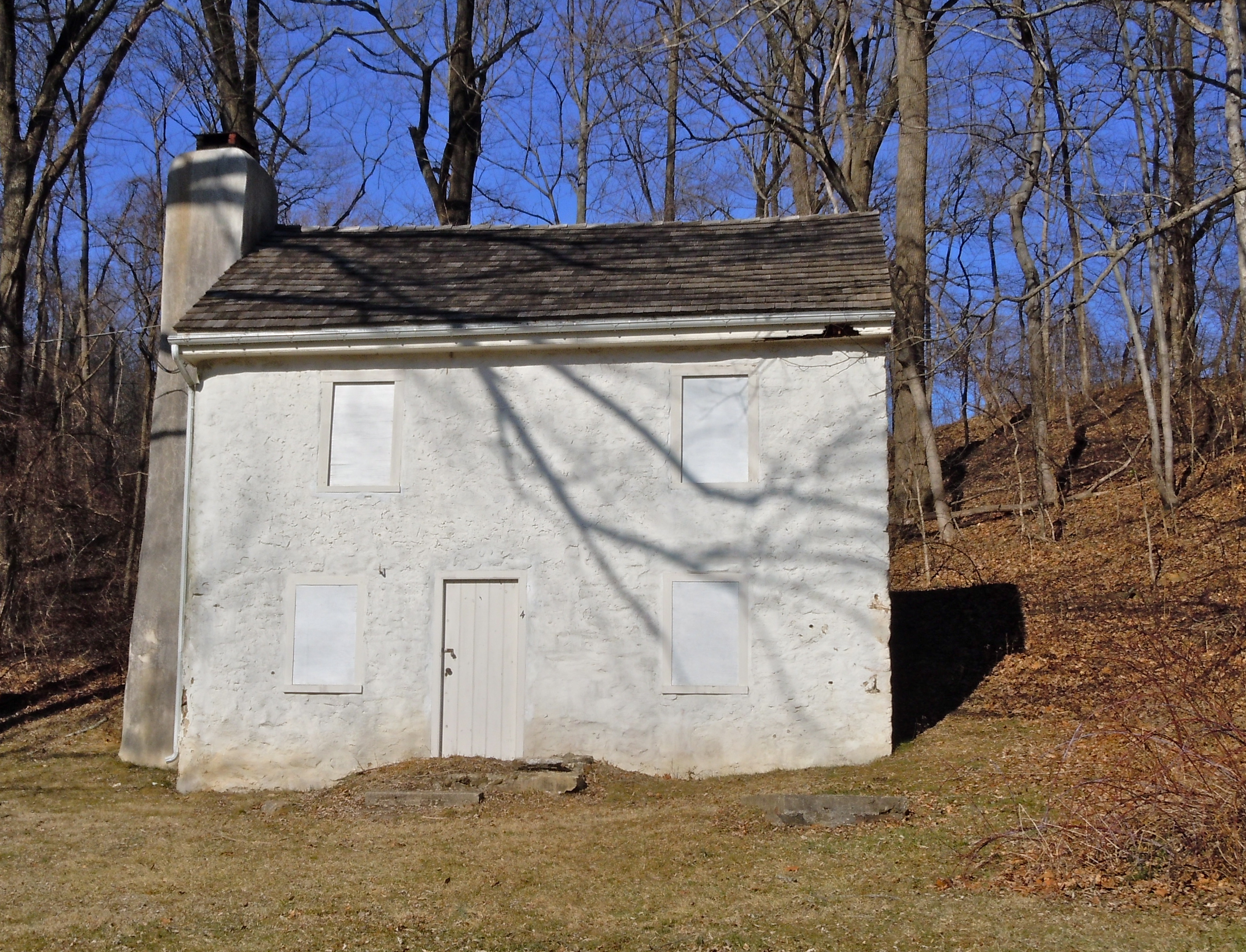 Mill and Miller's House in Hatfield-Hibernia Historic District on the NRHP since June 20, 1984. In Hibernia Park north of Wagontown, at corner with Lion's Head Road, next to the parking lot, in West Caln Township, Chester County, Pennsylvania.